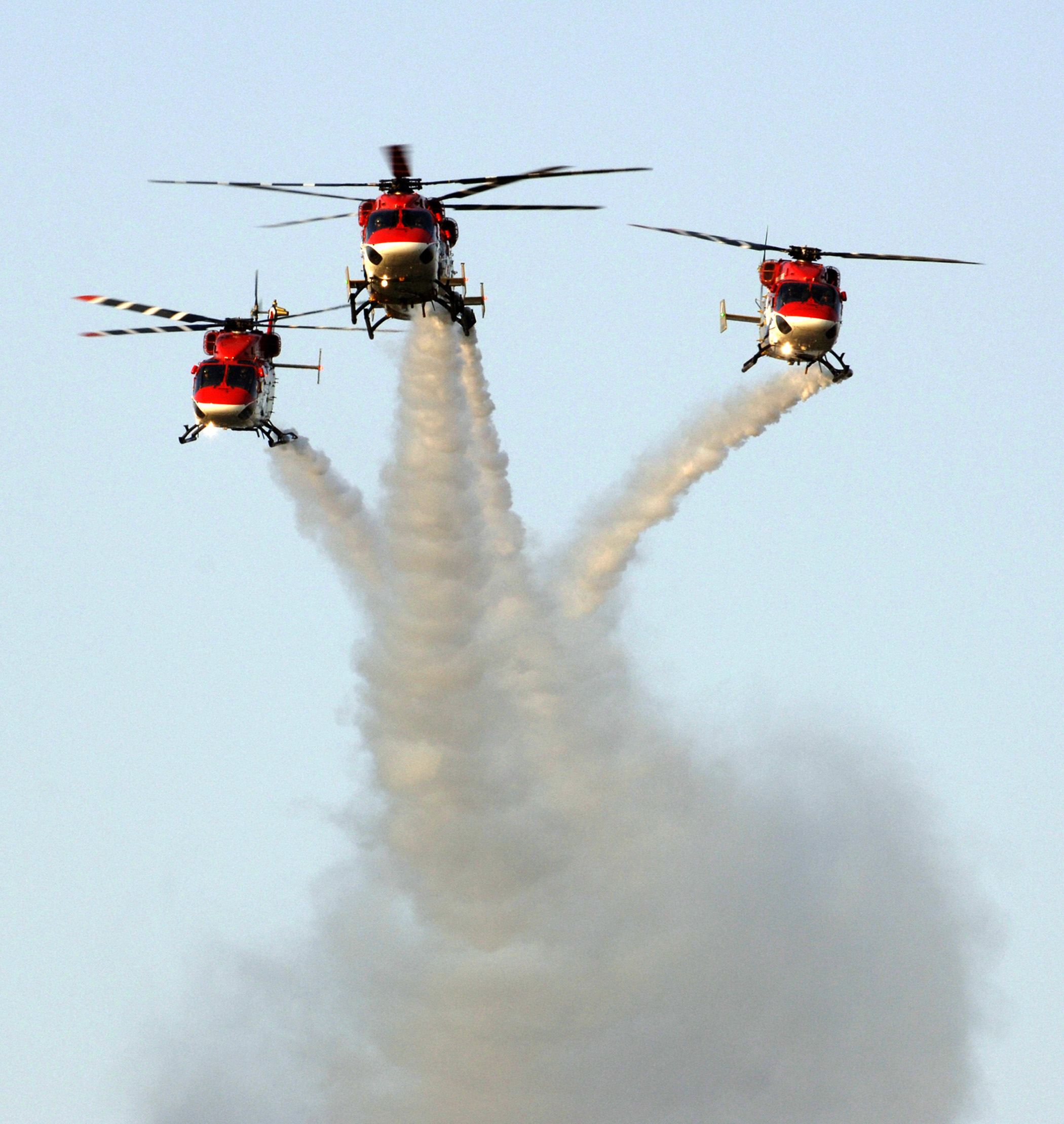 The Indian air force helicopter formations perform for more than 6,000 people at the Gachibowli Stadium in Hyderabad, India, for the 4th CISM Military World Games Oct. 14, 2007. The Conseil Internationale du Sport Militaire's Military World Games is the largest international military Olympic-style event in the world.